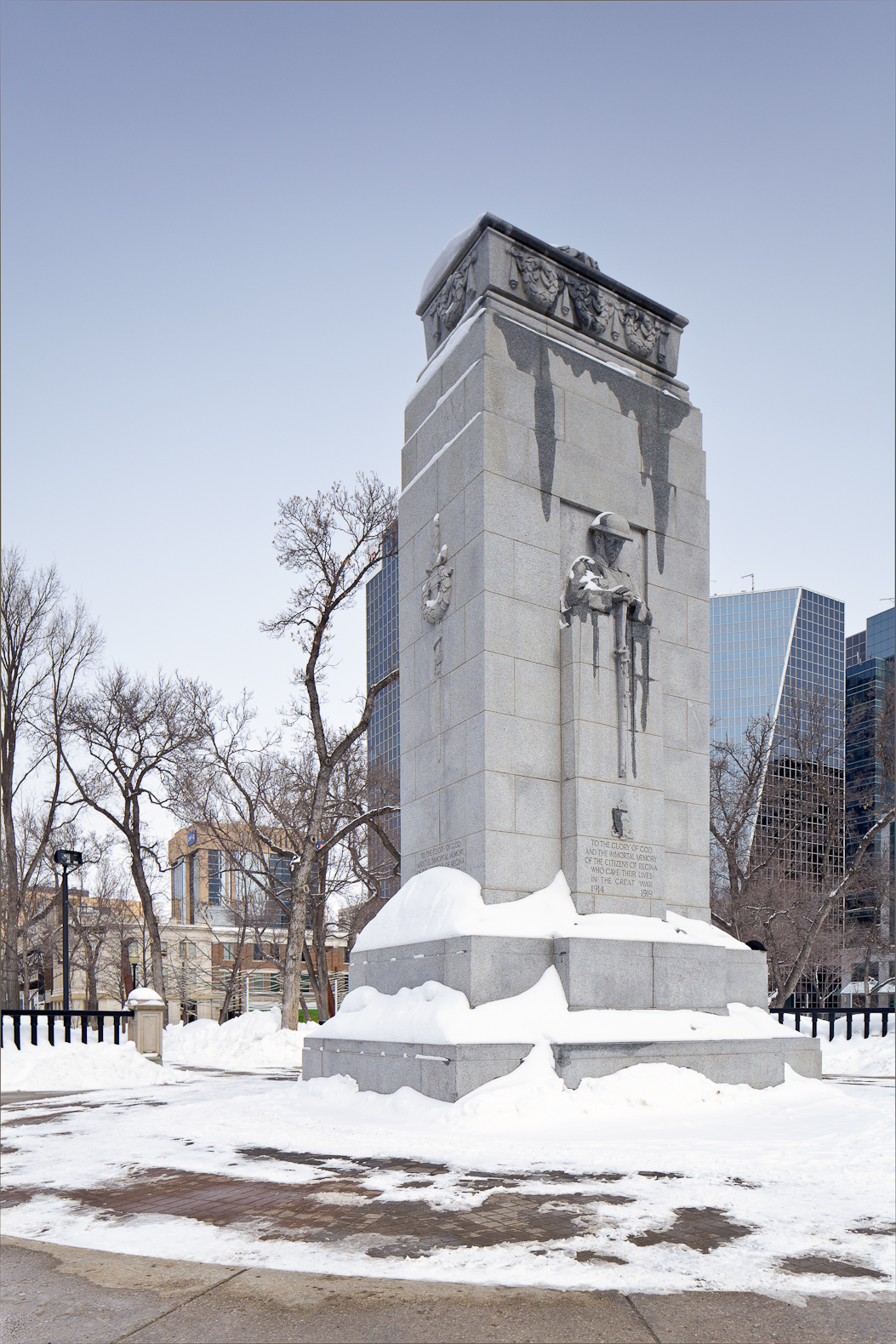 The cenotaph in the centre of Victoria Park, Regina, Saskatchewan, Canada.